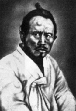 Jeon Bongjun, the leader of the Donghak Peasant Revolution